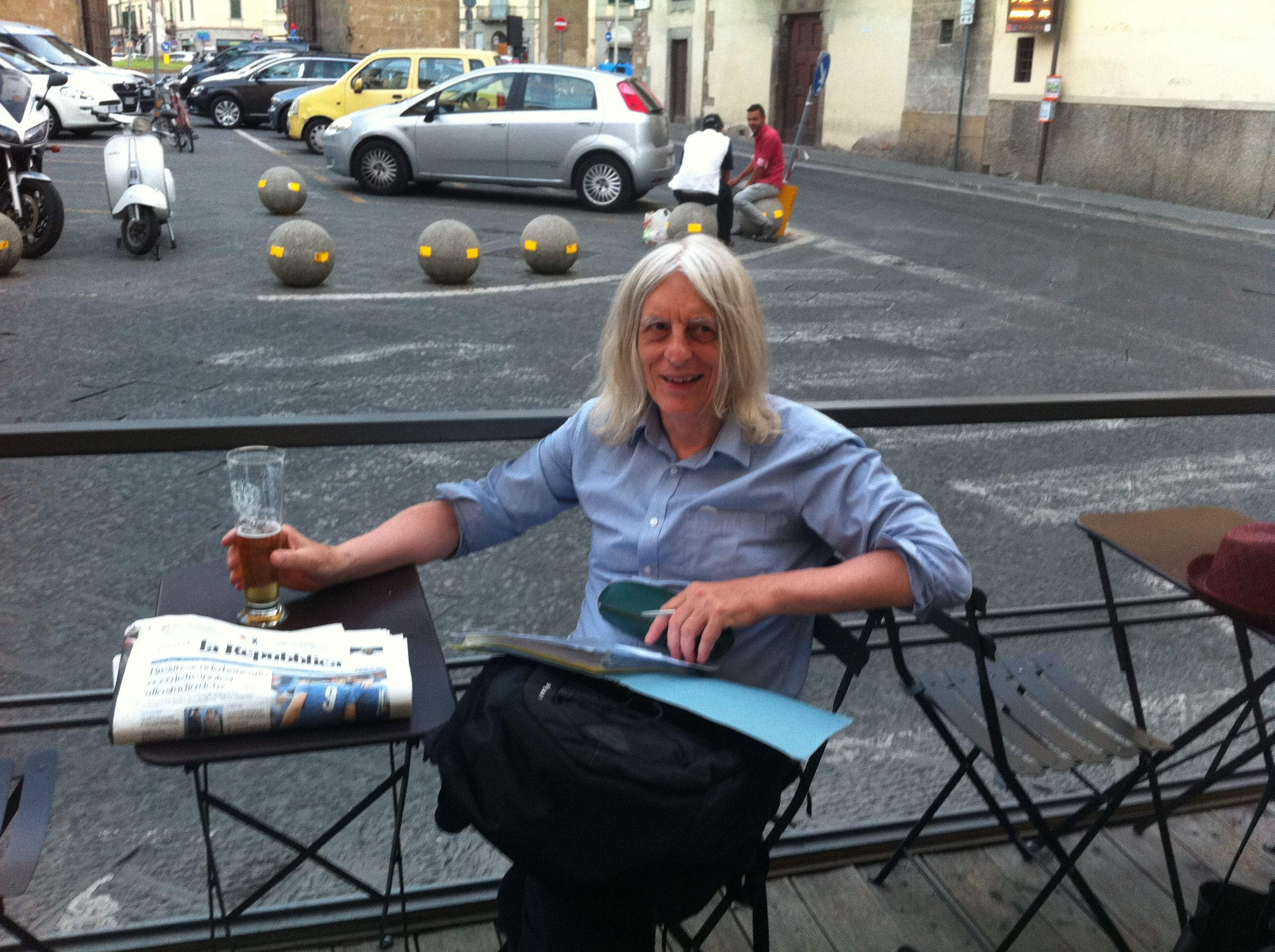 Hugh Osborn enjoying a beer in a cafe in Florence near Porta Romana after a conference day at the Galileo Galilei Institute for Theoretical Physics